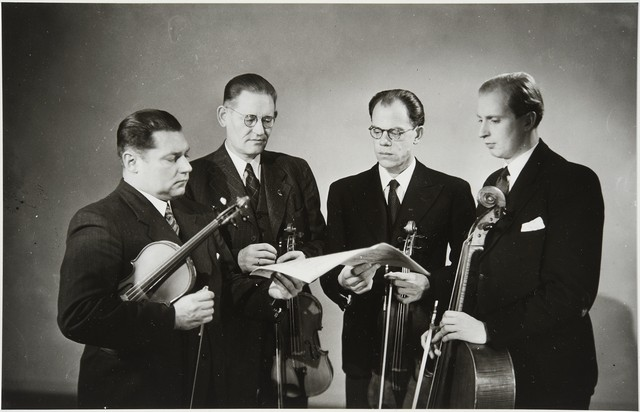 Photograph of the Sibelius Quartet. From left to right: Erik Cronvall, Hugo Huttunen, Erik Karma, Artto Granroth.